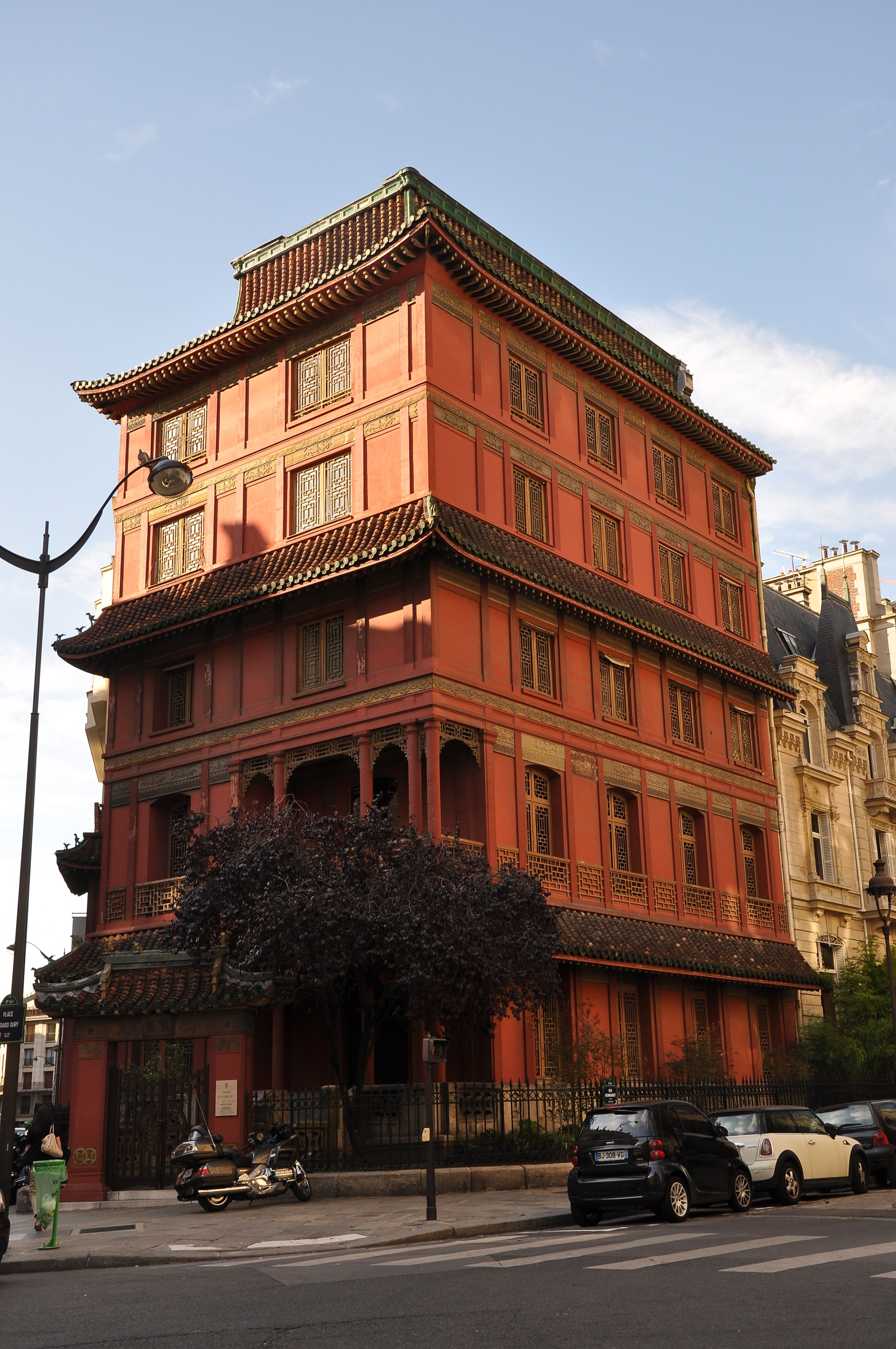 The Red Pagoda is a building inspired by a Chinese pagoda. It was built in 1926 to shelter the art gallery of Far East of Ching Tsai Loo. It is situated in 48 Courcelles street at Paris 8th district .